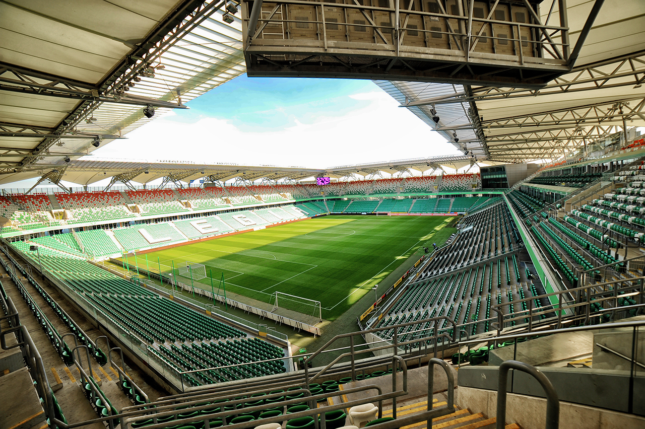 Polish Army Stadium in Warsaw, Poland